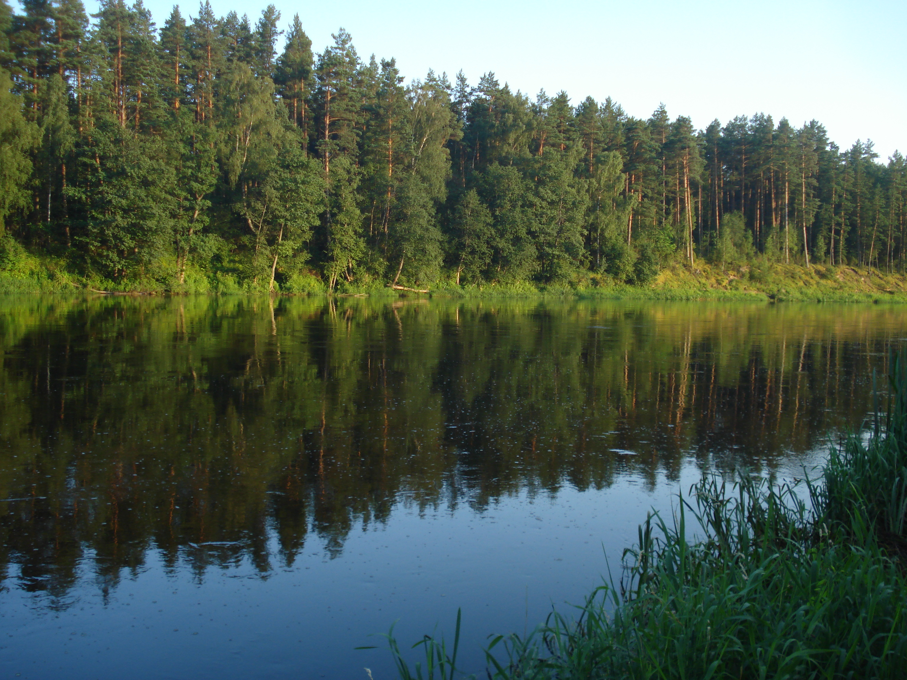 Neris near Brižiai, little settlement in Lithuania